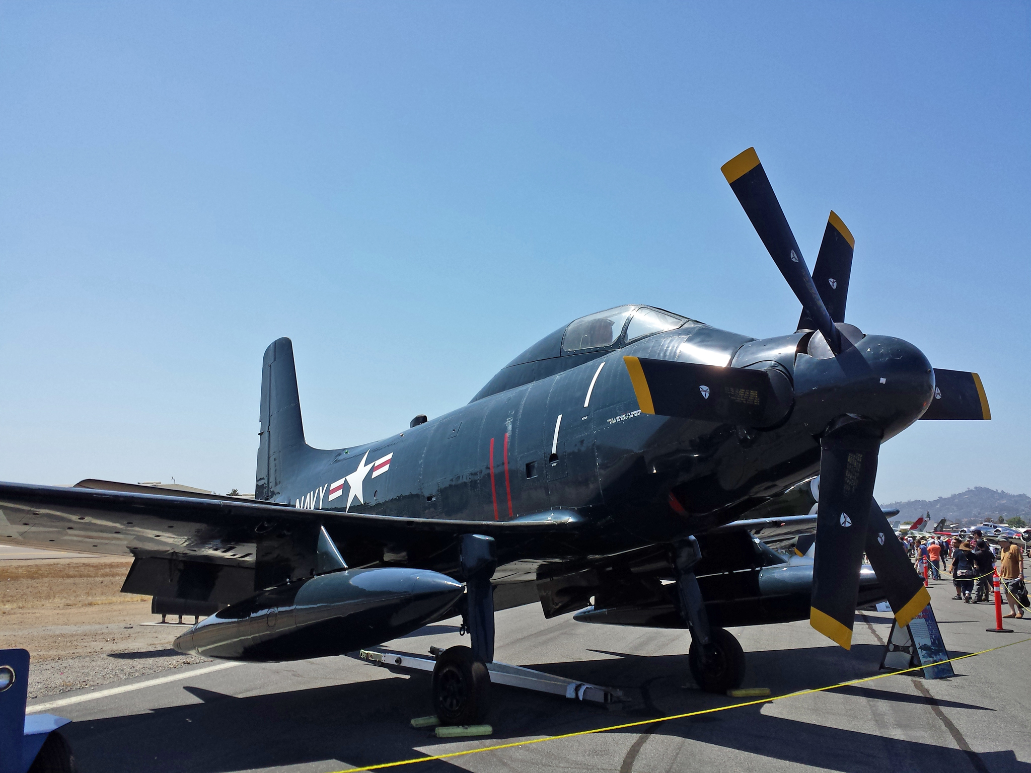 Air Show San Diego - Gillespie Field (KSEE) - Monica E Del Coro - TDelCoro - June 8, 2014